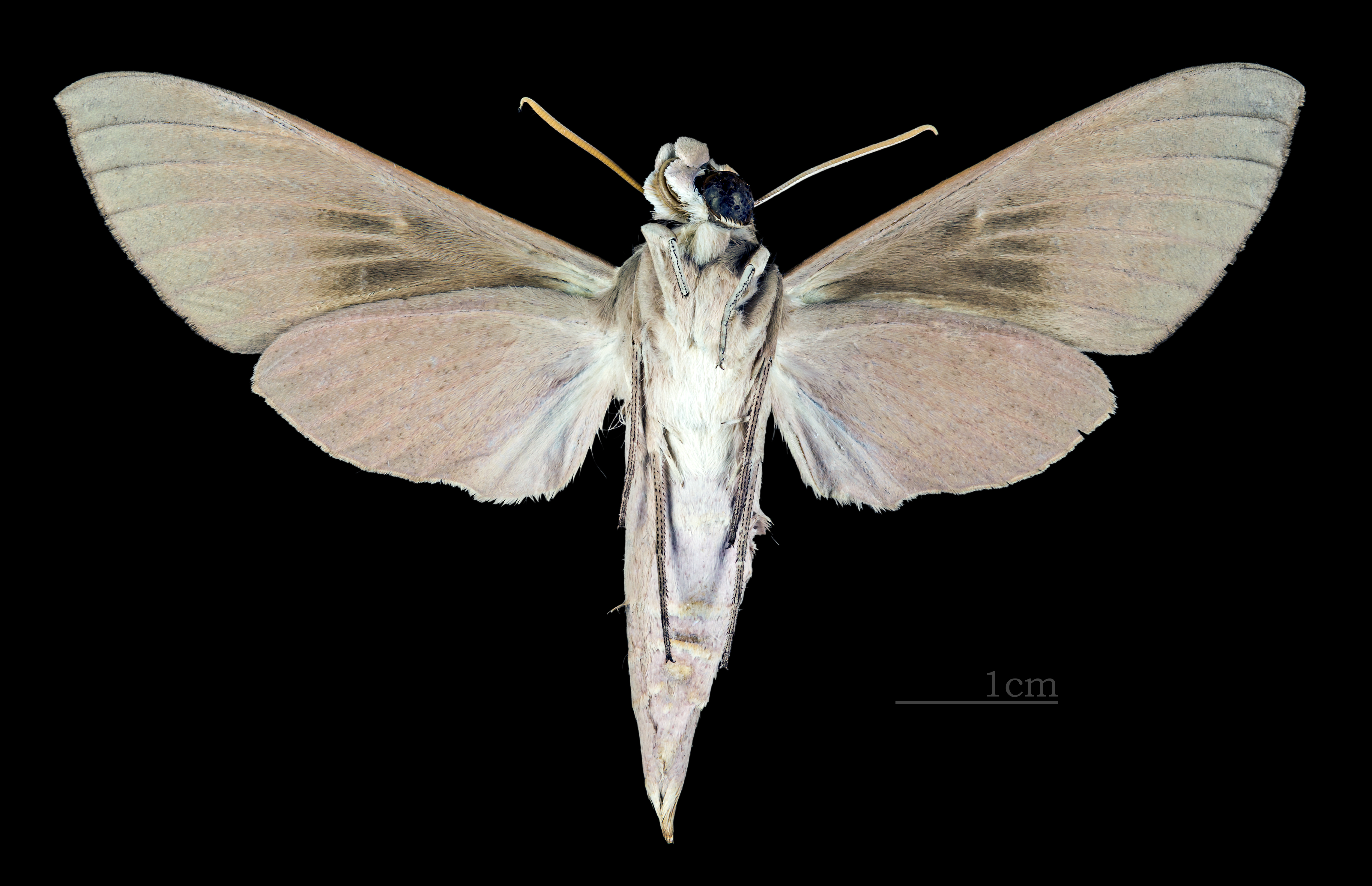 Theretra incarnata - △ Ventral side Collection of the Mathematician Laurent Schwartz